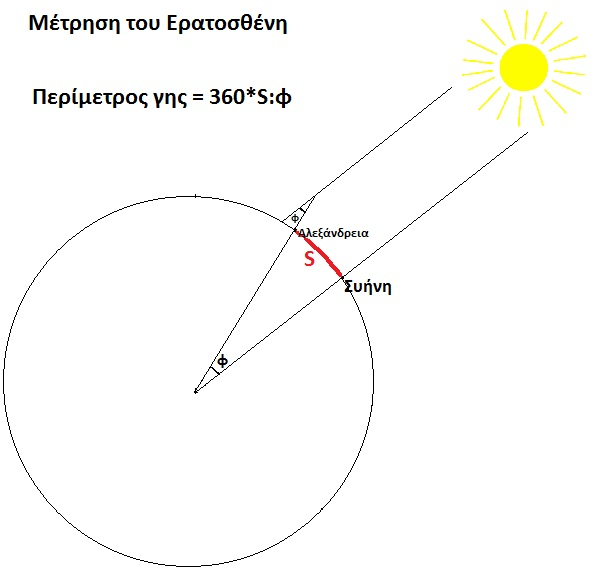 Eratosthenes' measurement of the Earth's circumference